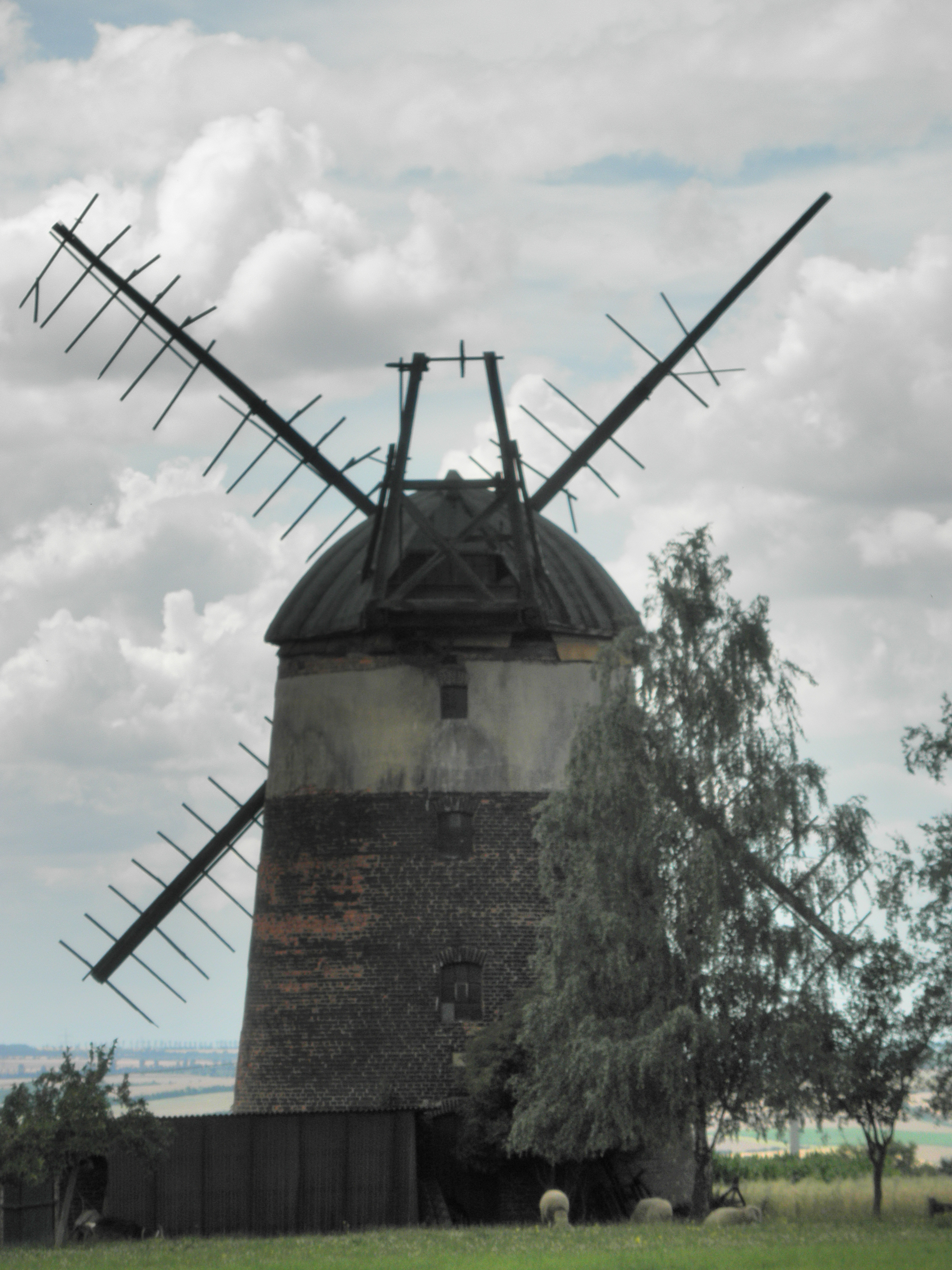 Wind Mill in Schmiedehausen in Thuringia